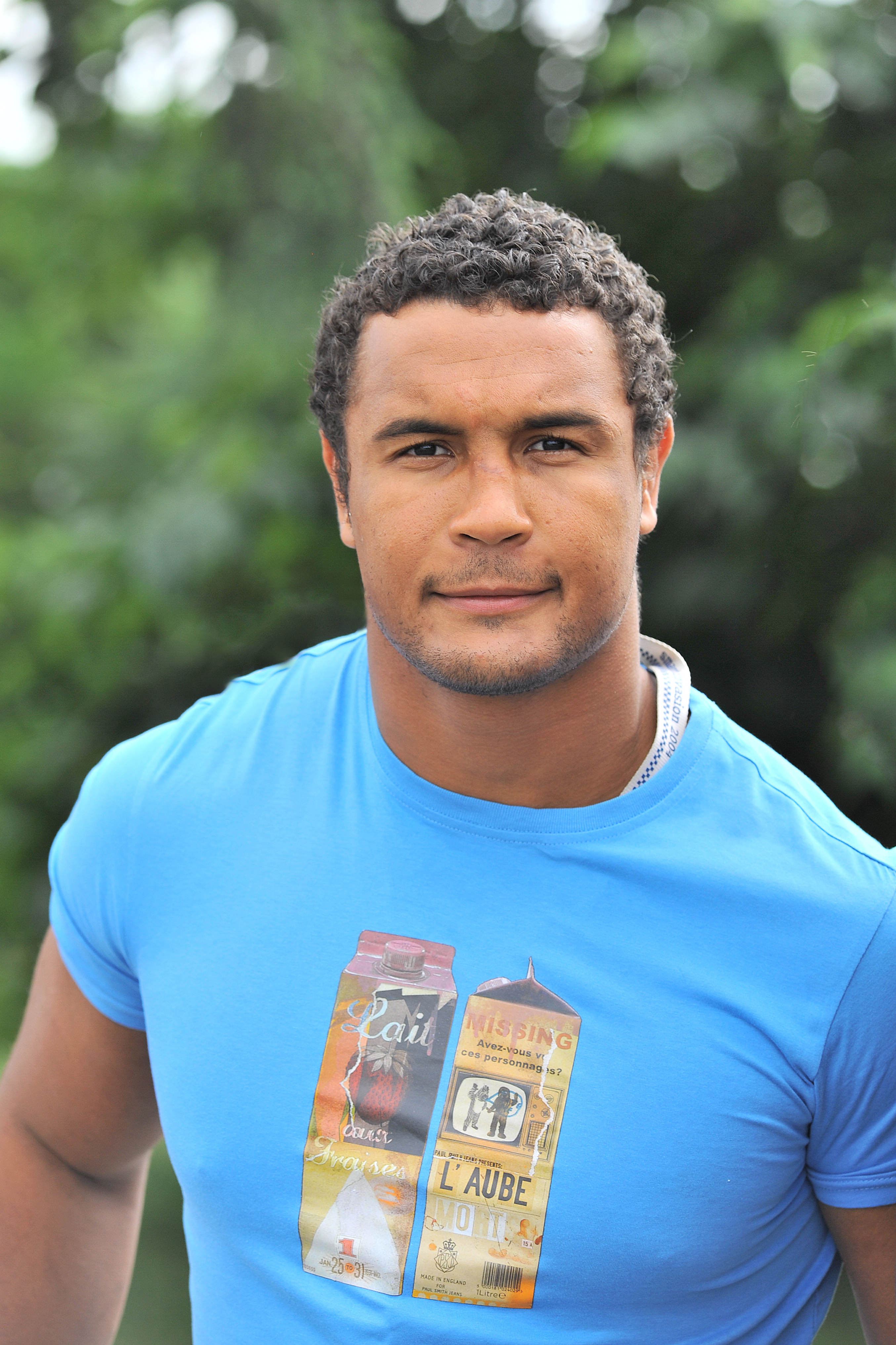 Thierry Dussautoir